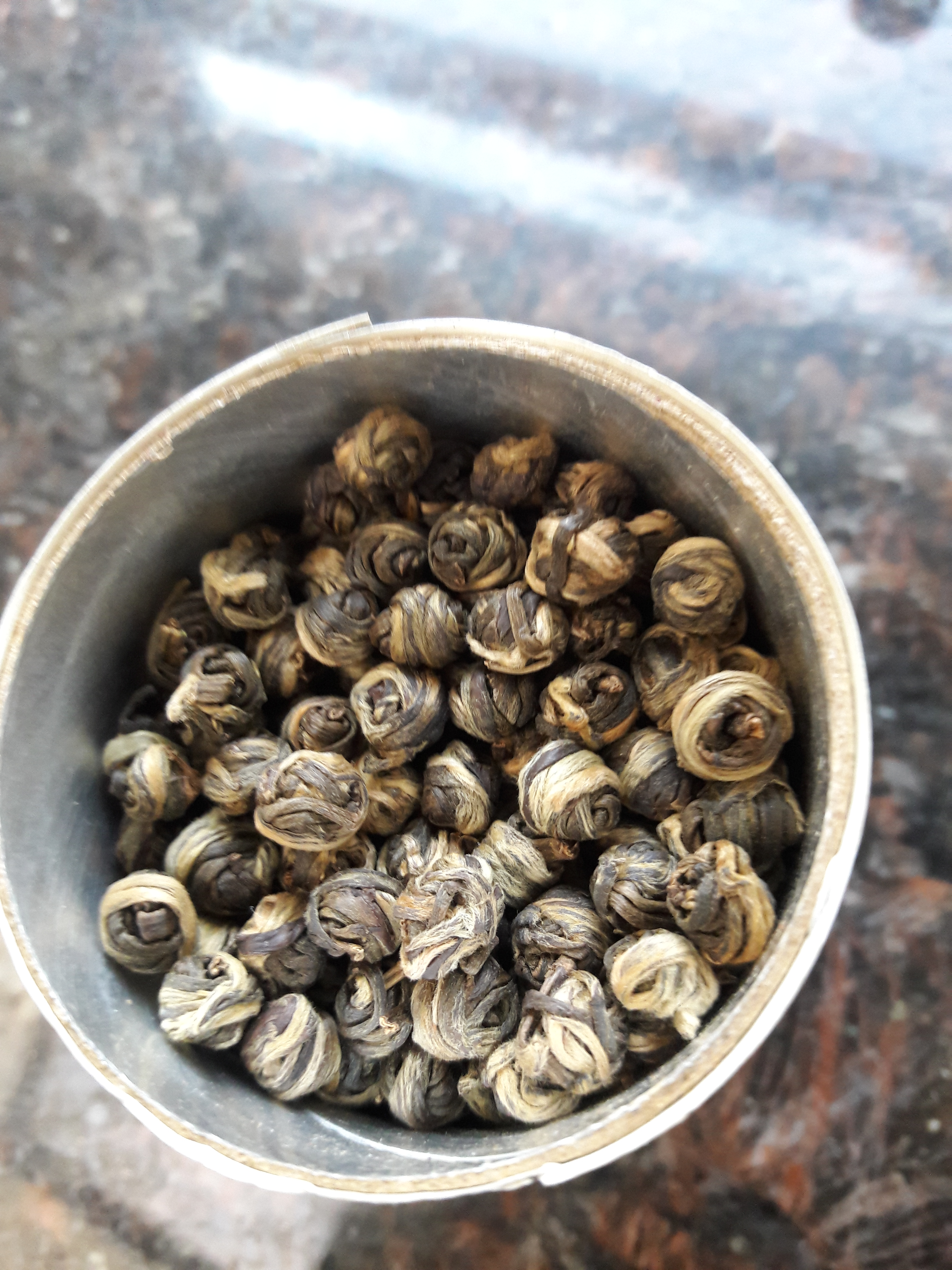 Tea Oolong oxidated Tea balls from China